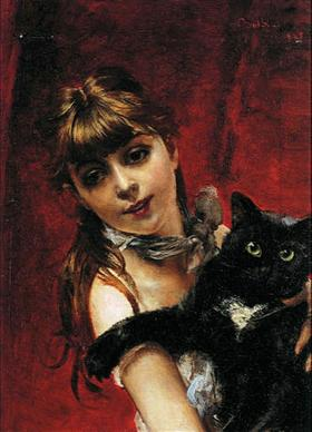 Work by Giovanni Boldini